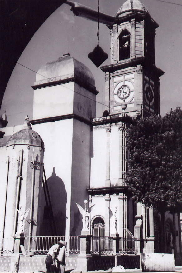 The Templo de Guadalupe 1772.